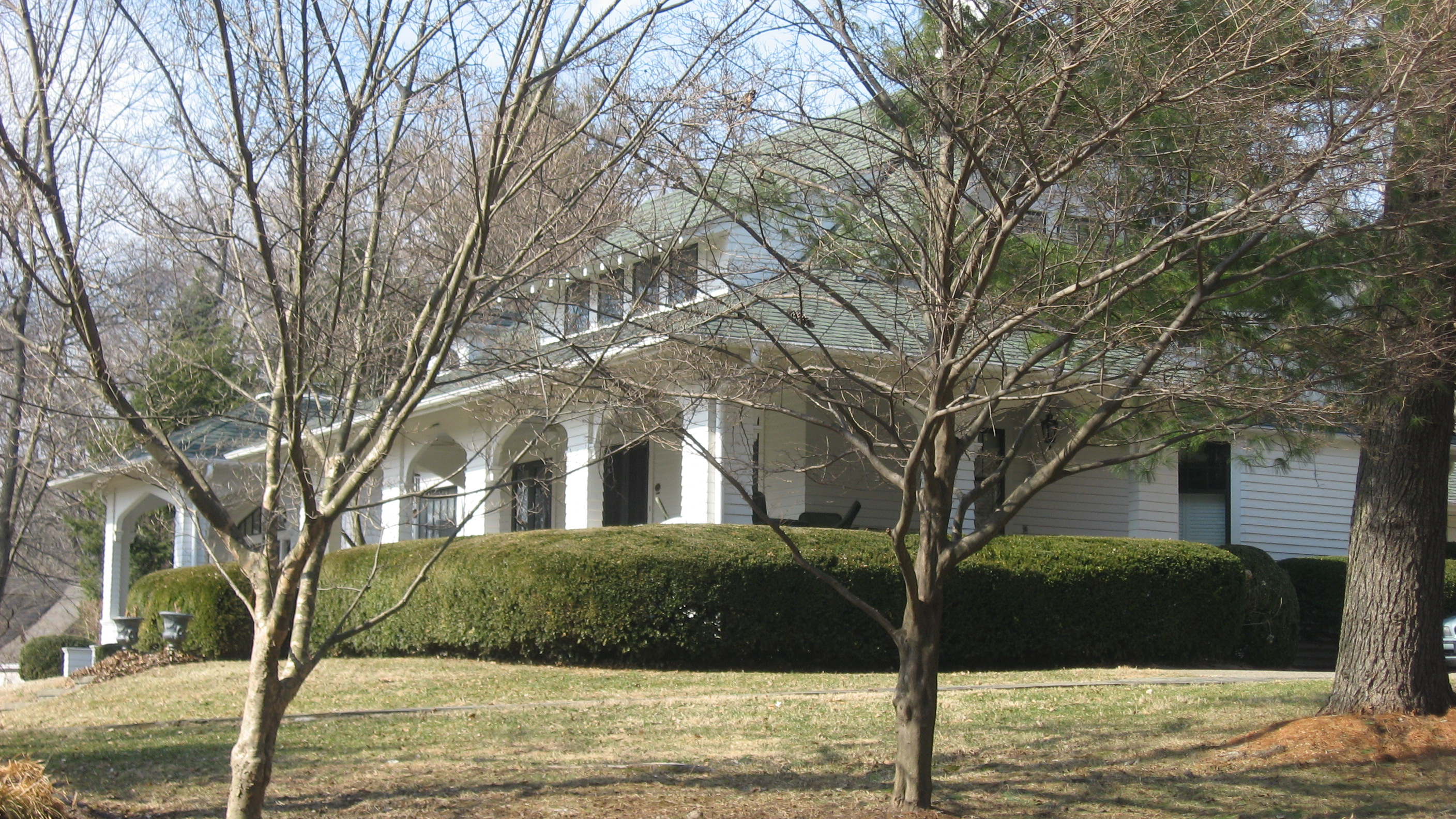 Front and eastern side of the Anchorage Presbyterian Manse, located at 1302 Bellewood Road in Anchorage, Kentucky, United States. Built in 1910, it is listed on the National Register of Historic Places.